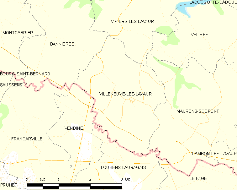 Map of French municipality Villeneuve-lès-Lavaur